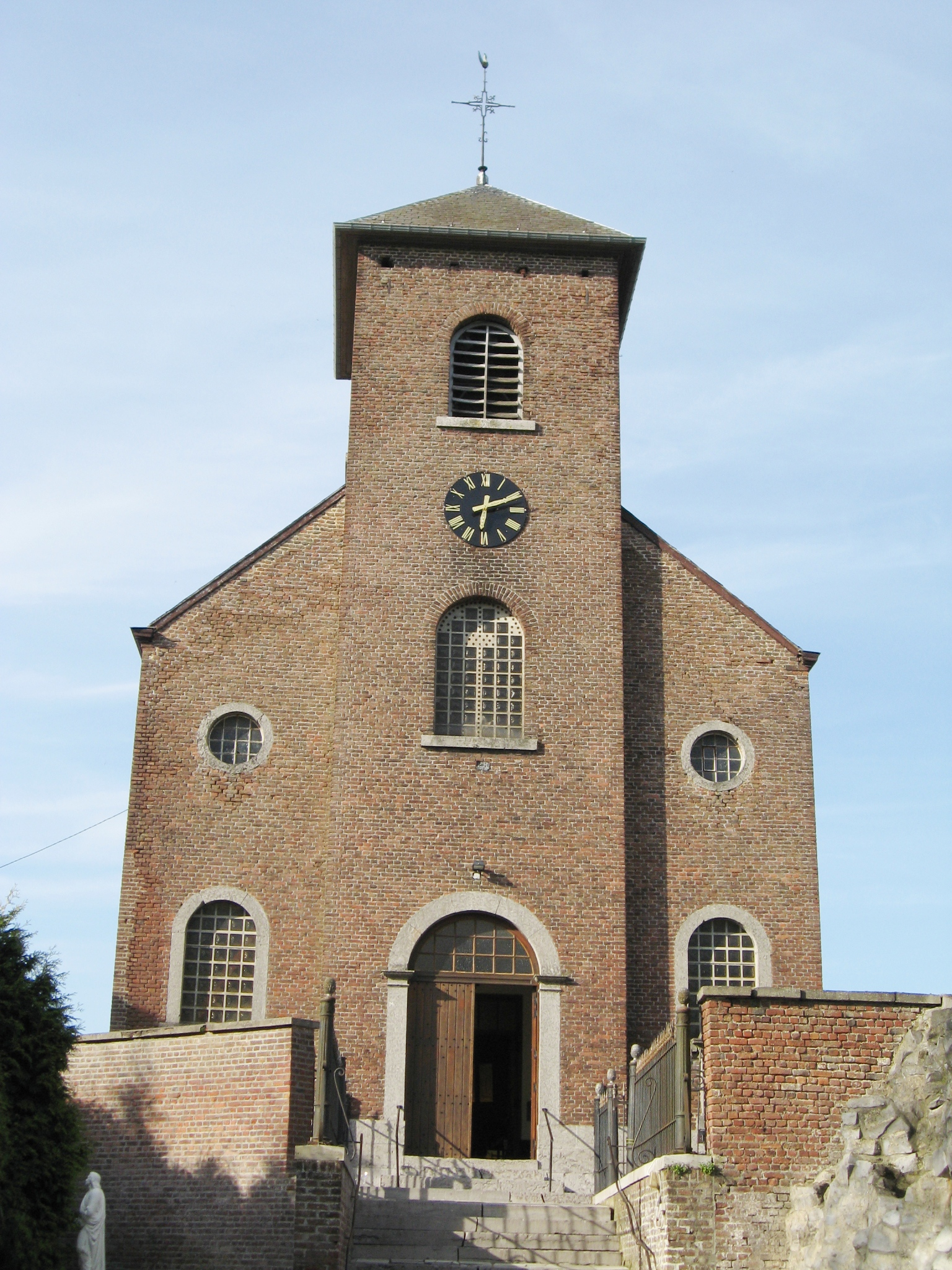 Church of Saint Trudo in Trognée, Hannut, Liège, Belgium